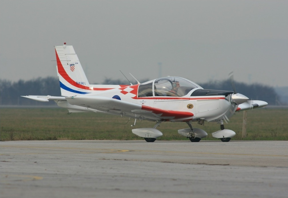 Croatian Air Force Zlin 242L at 20th aniversary